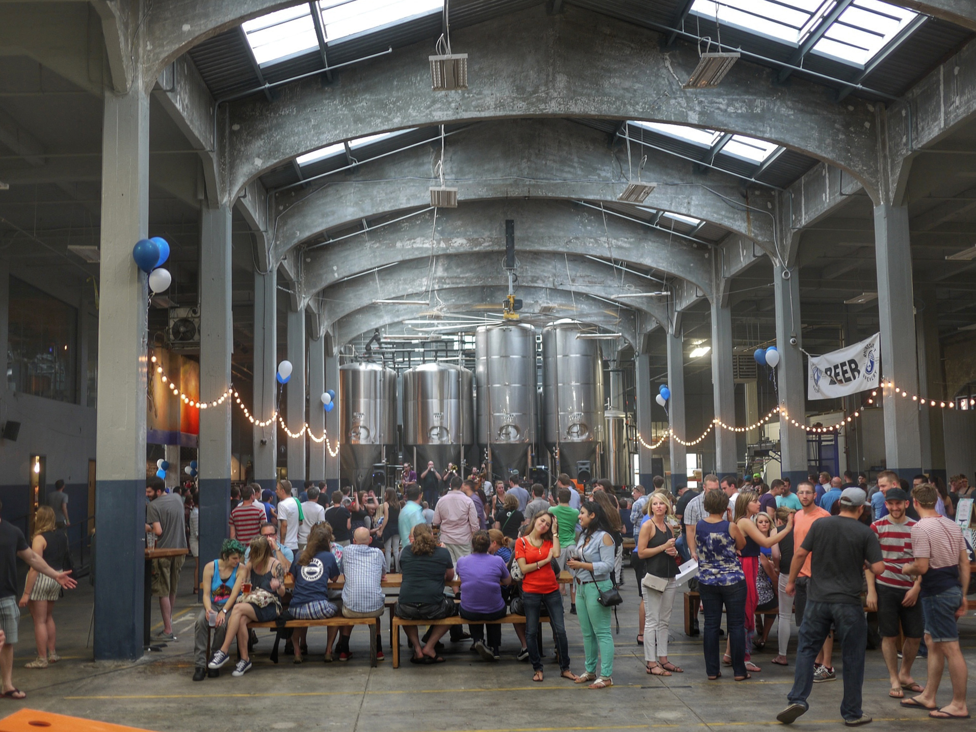 Rhinegeist's brew hall at 1910 Elm St in Over-the-Rhine, Cincinnati, Ohio, U.S.